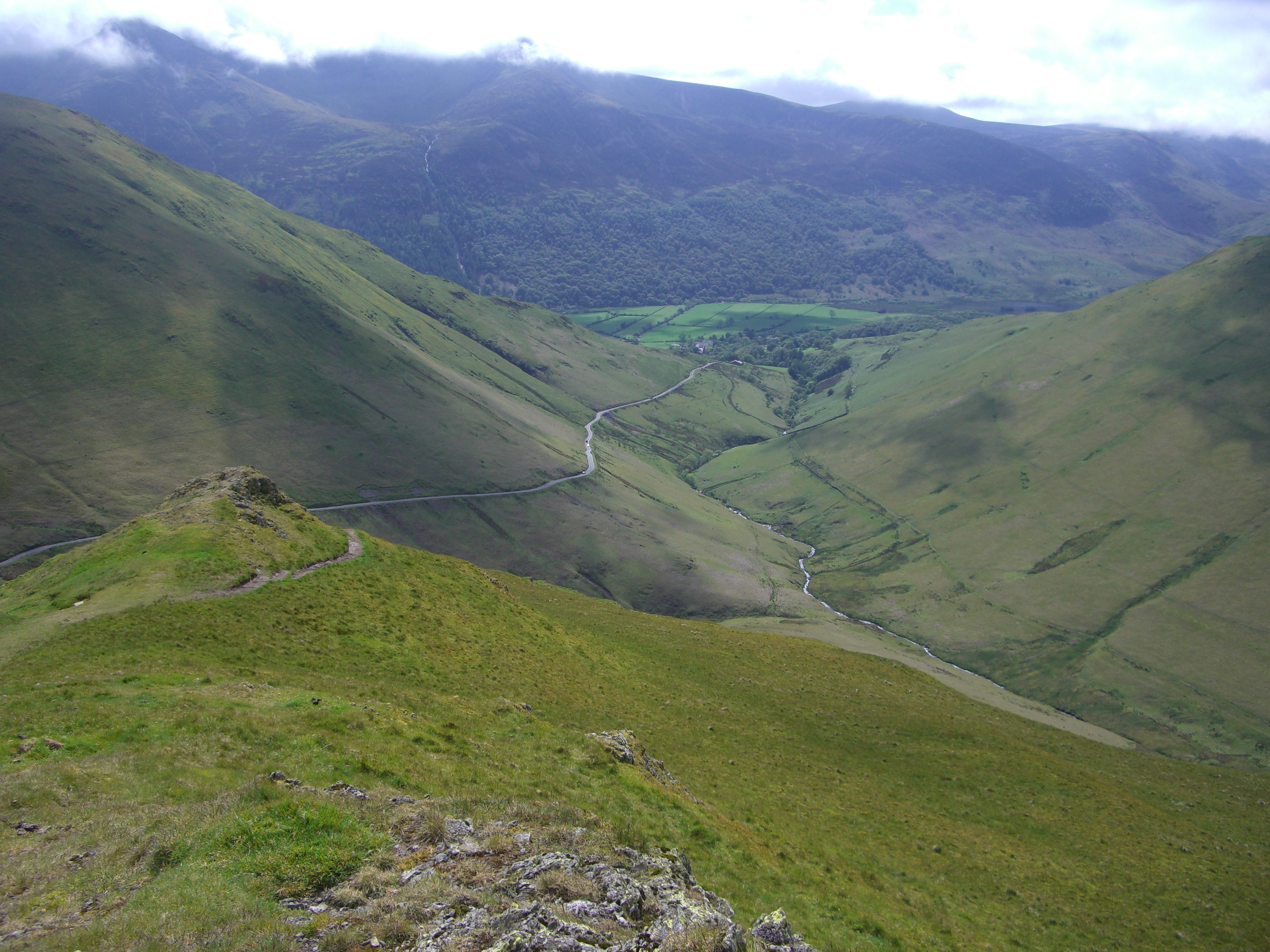 View south from near the summit of Knott Rigg in the Lake District, England.